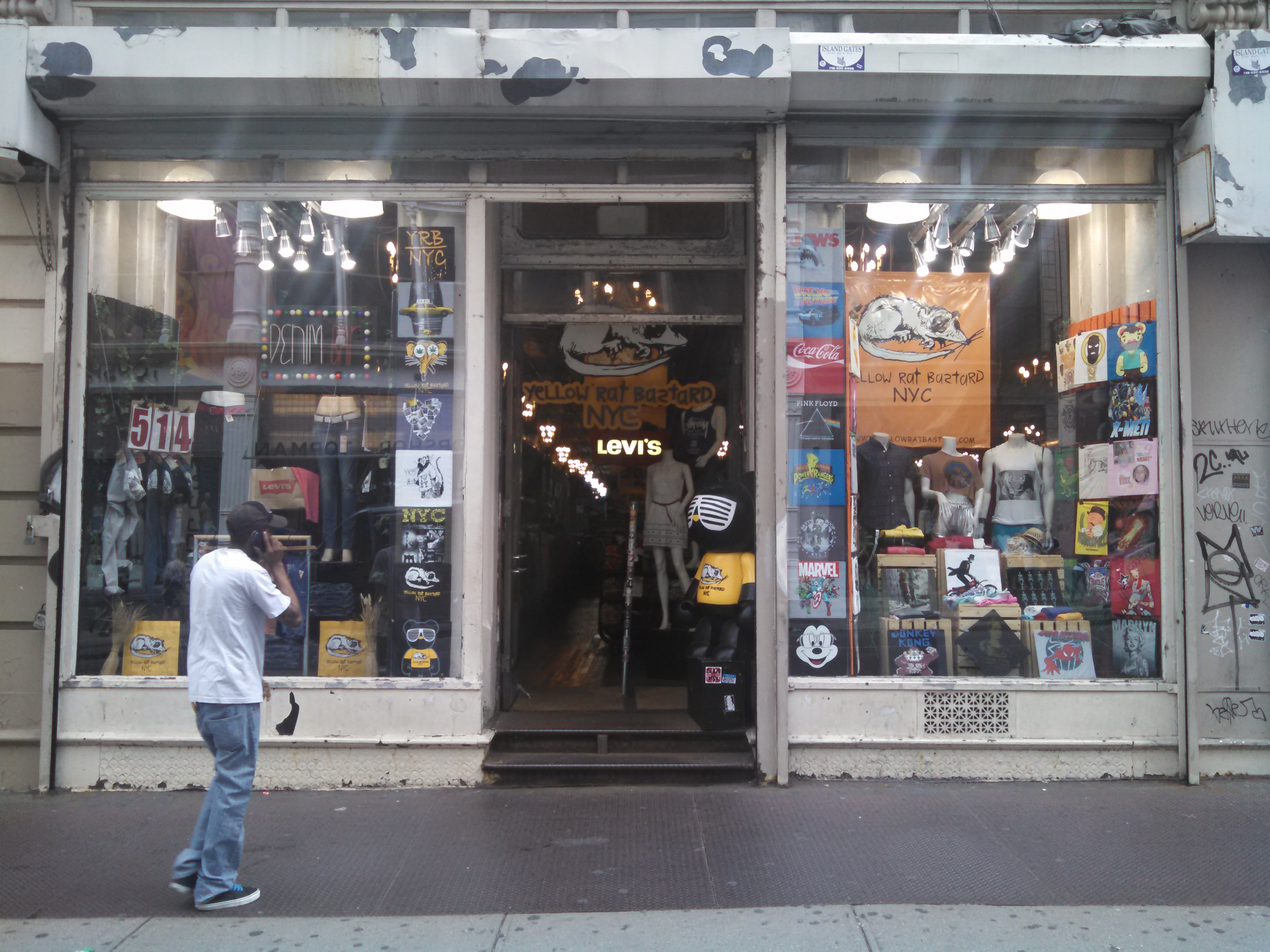 Yellow Rat Bastard, Broadway, SoHo New York